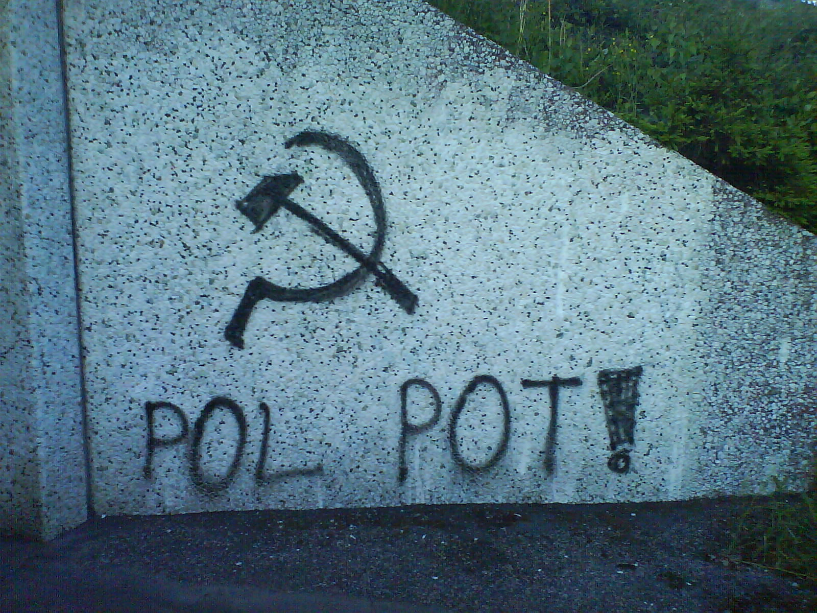 Mural painting celebrating Pol Pot in Sundsvall, Sweden, 2007